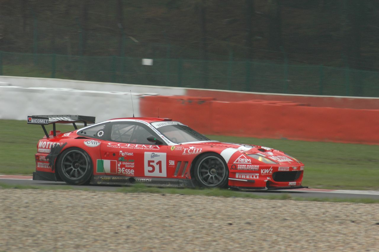 BMS Scuderia Italia's Ferrari 550-GTS at the 2005 1000km of Spa